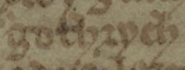 The name of Guðrøðr Óláfsson, King of Dublin and the Isles as it appears on page 198 of National Library of Wales Peniarth 20. The text reads "Gothrych".